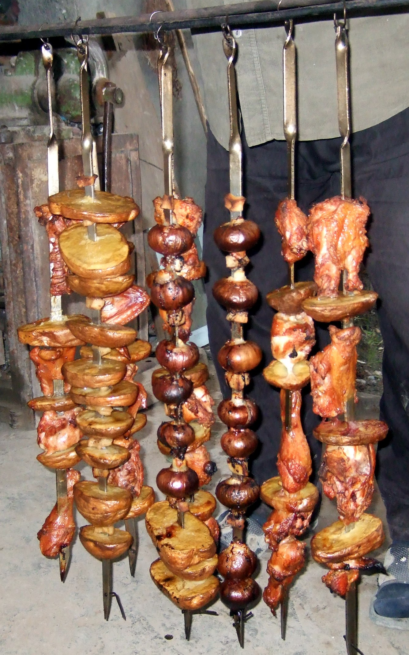 Chicken wings barbecued in tonir, together with potatoes and onions. Pieces of pork fat were placed between the onions and the slices of the potatoes to give them a phenomenal taste.